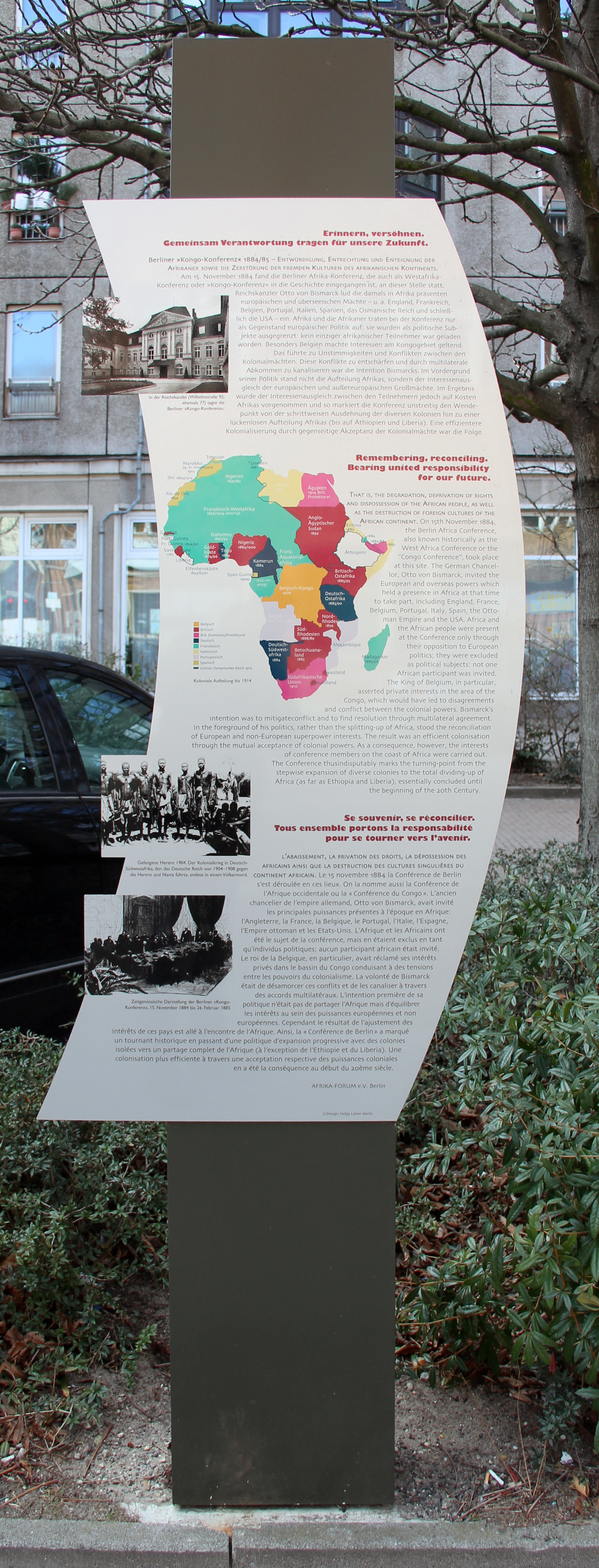 Memorial plaque, Kongokonferenz, Wilhelmstraße 92, Berlin-Mitte, Germany